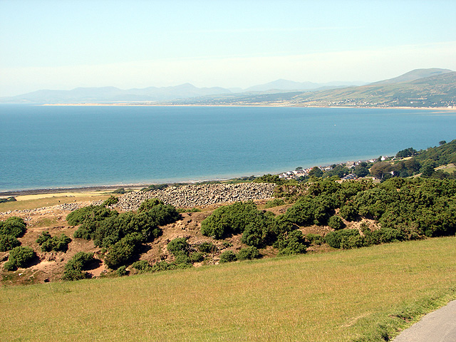 A view towards Llwyngwril from above Castell y Gaer Castell y Gaer is an Iron Age hillfort that can be seen in the centre of this view.